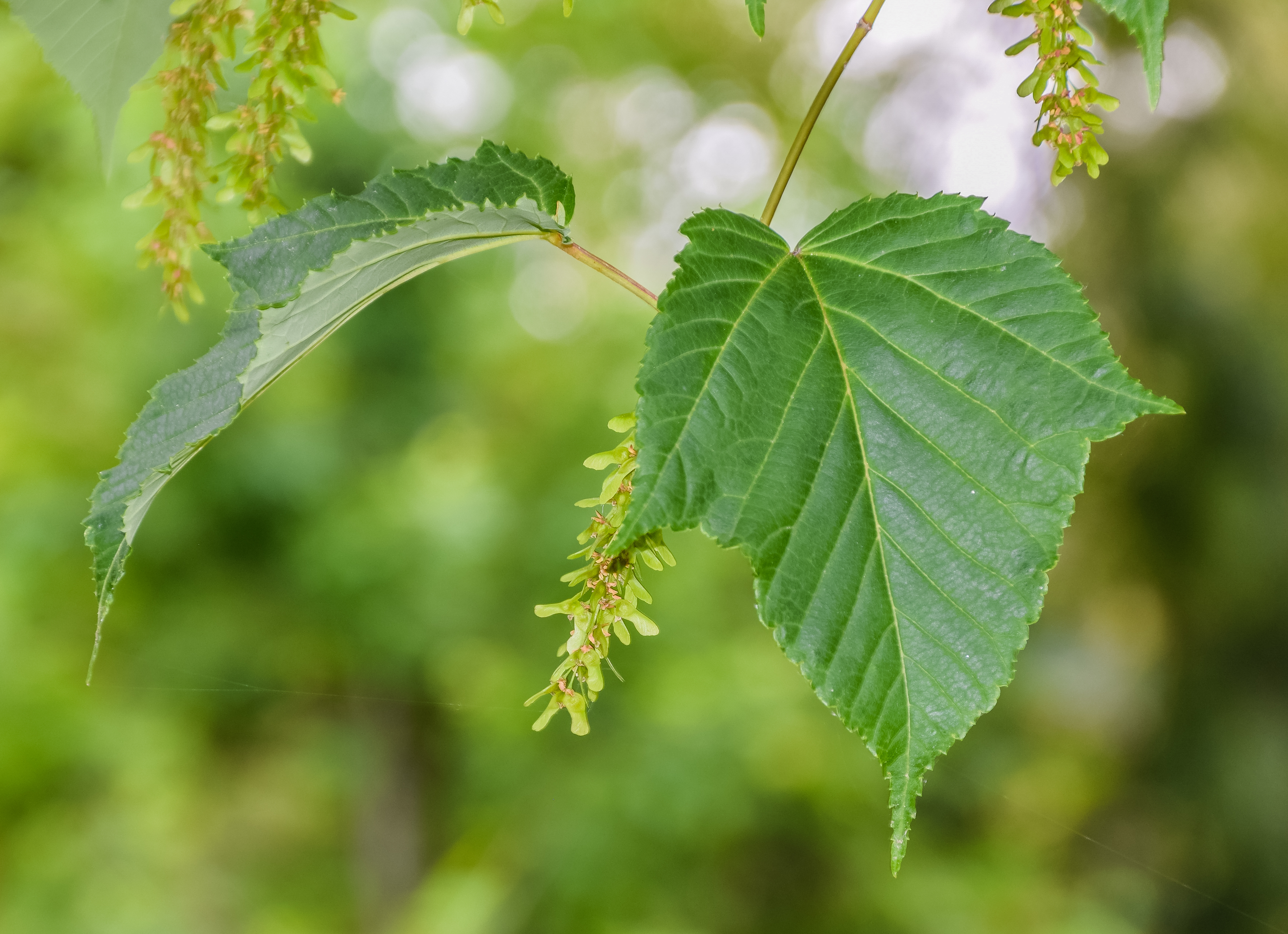 Acer capillipes in Hackfalls Arboretum, Gisborne Region, New Zealand